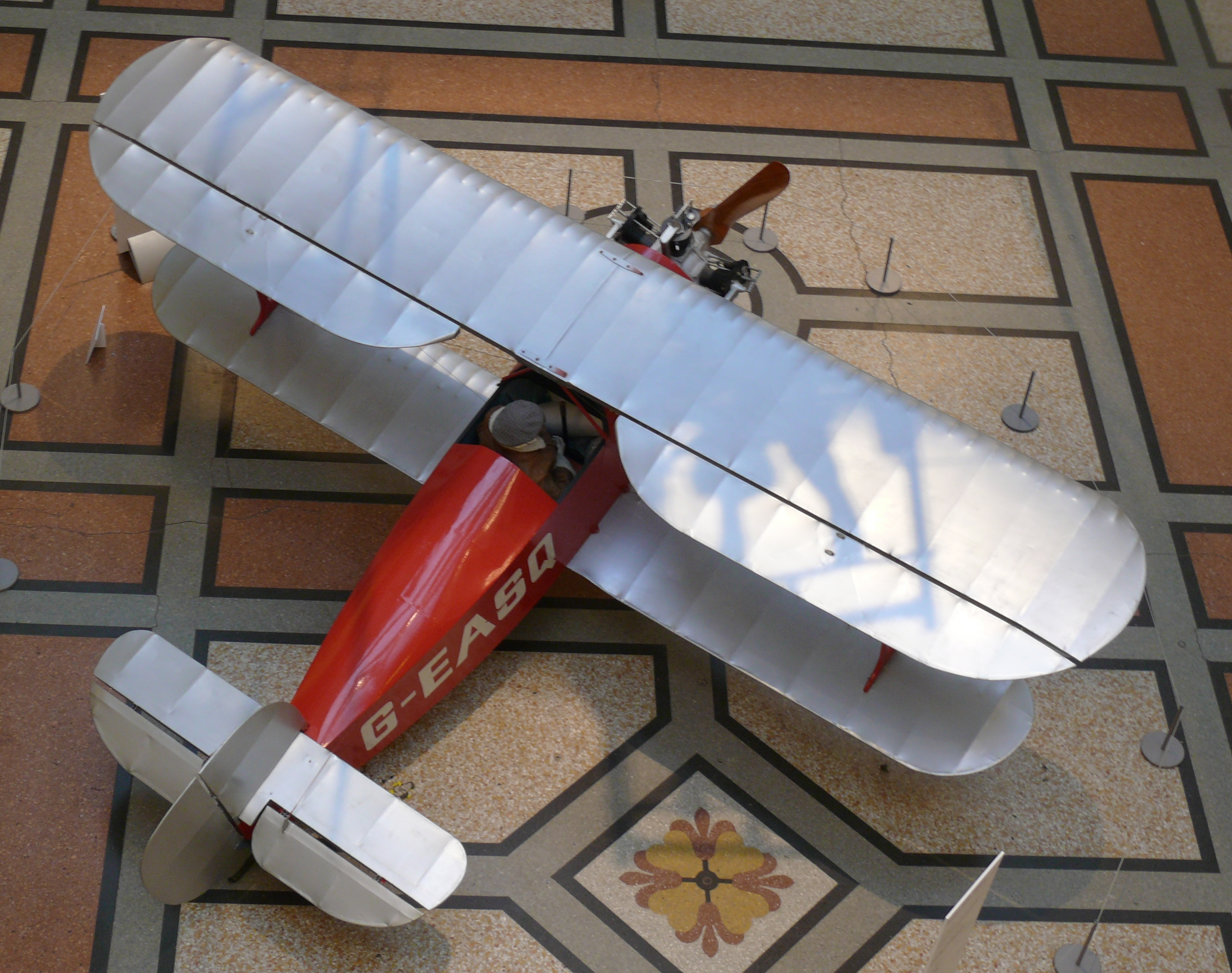 Bristol Babe replica in the Bristol City Museum and Art Gallery.